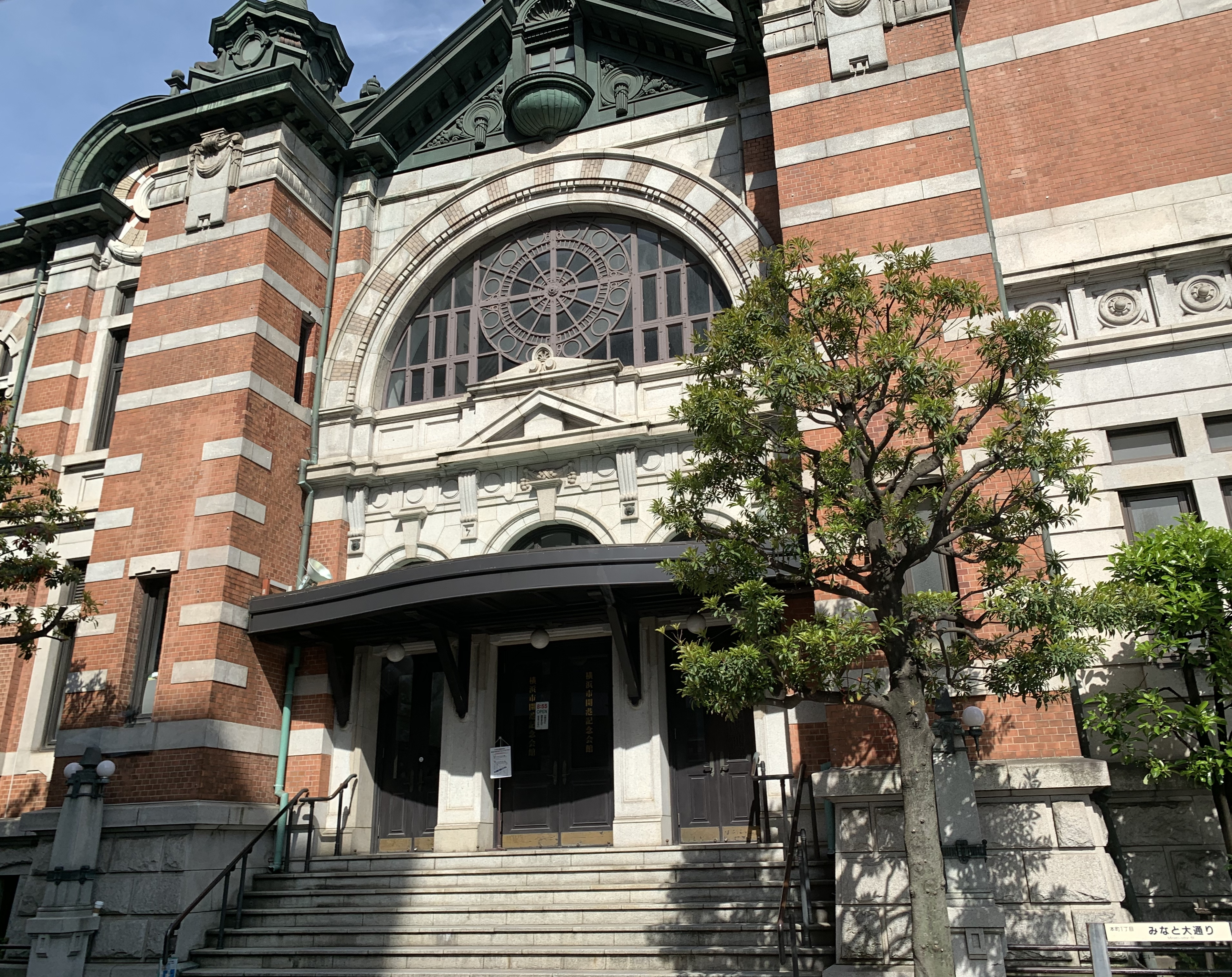 2019年5月3日午前8時27分撮影